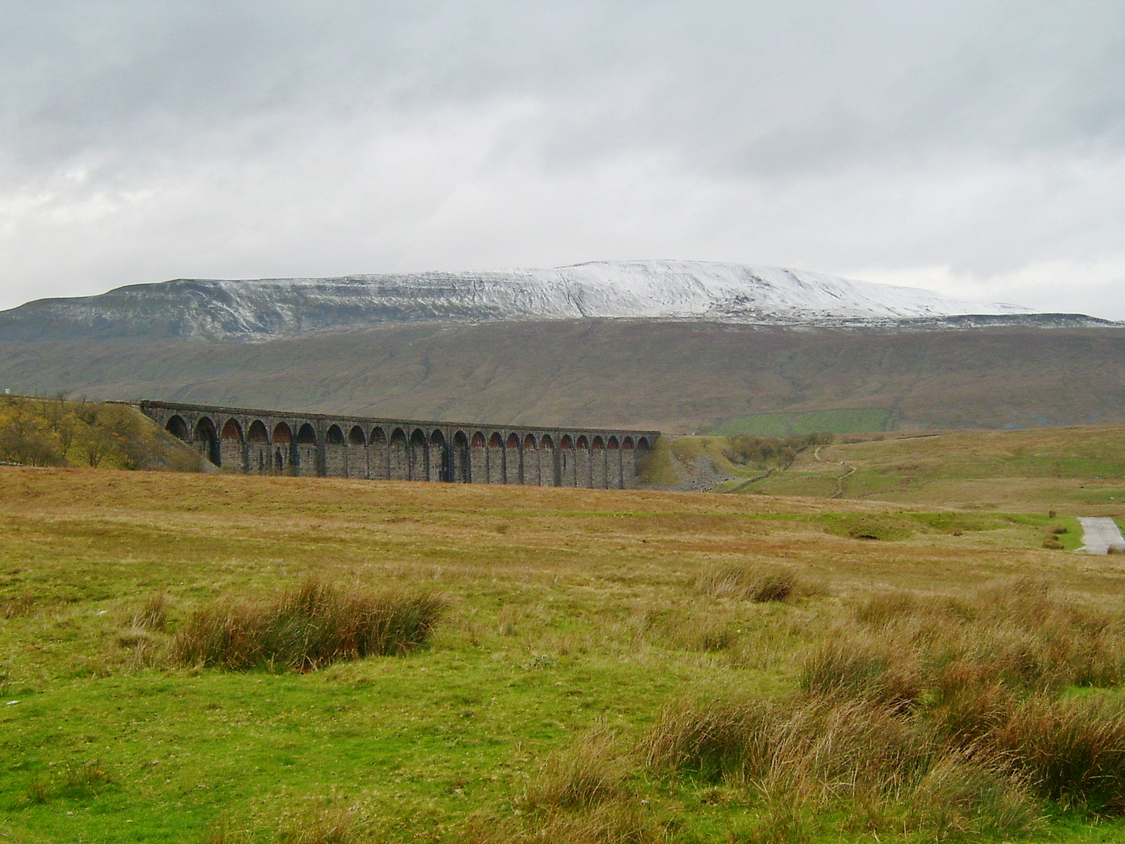 I took this myself on a day out.